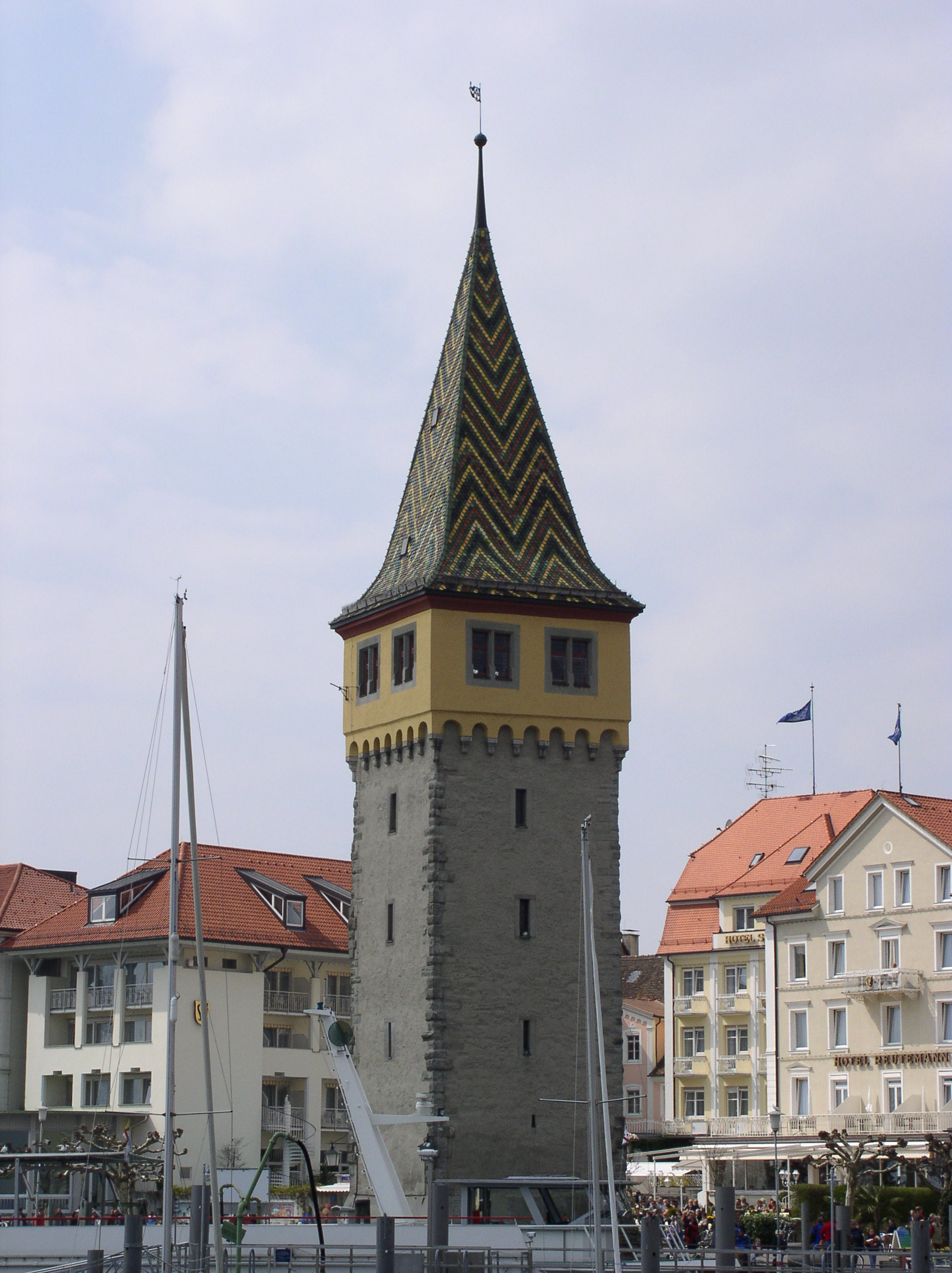 Description: Mangturm am Hafen von Lindau Source: photo taken by me, April 2004 Photographer: Baikonur